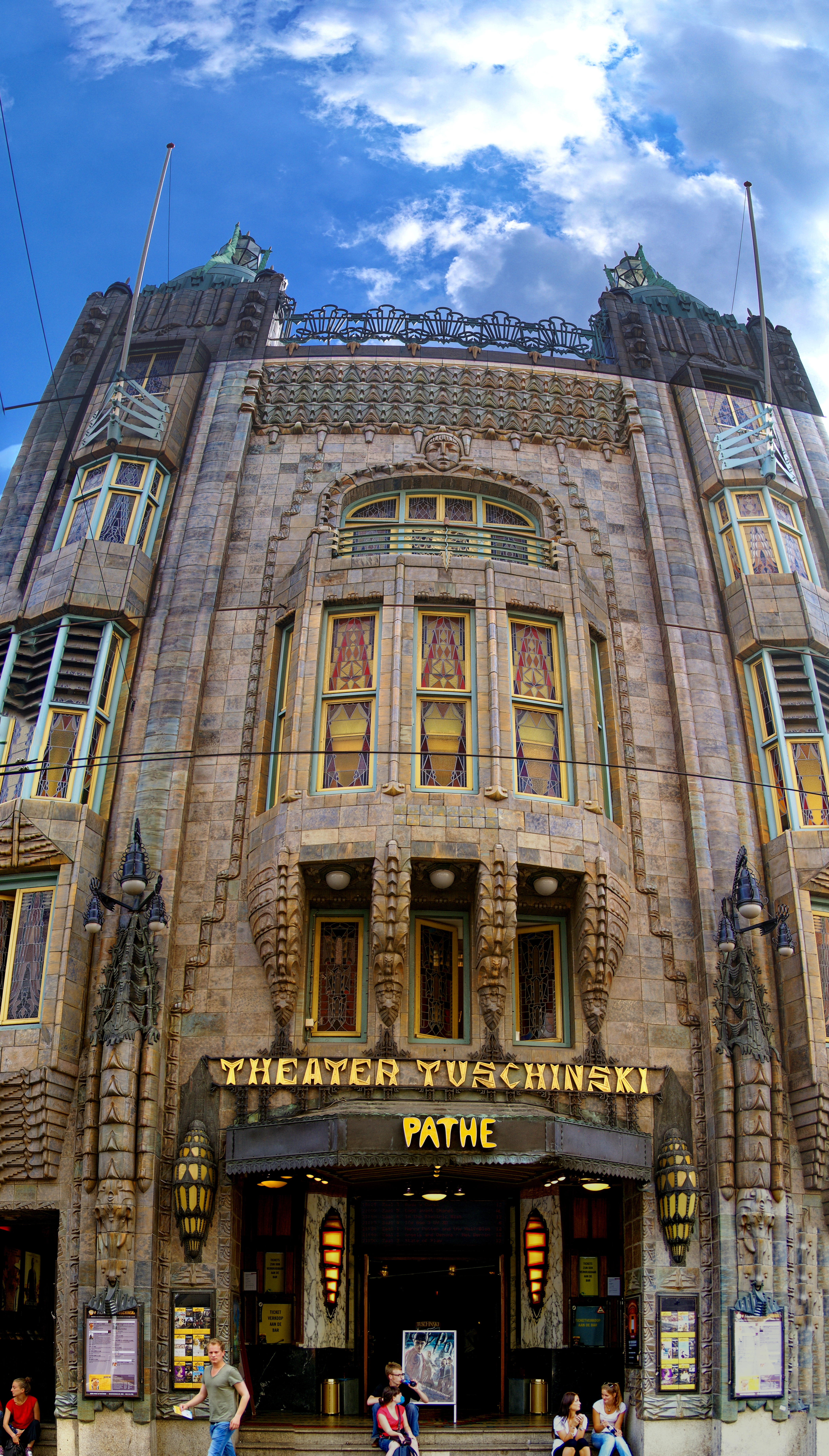 Amsterdam - Reguliersbreestraat - Theater Tuschinski - Panoramic Photocompilation